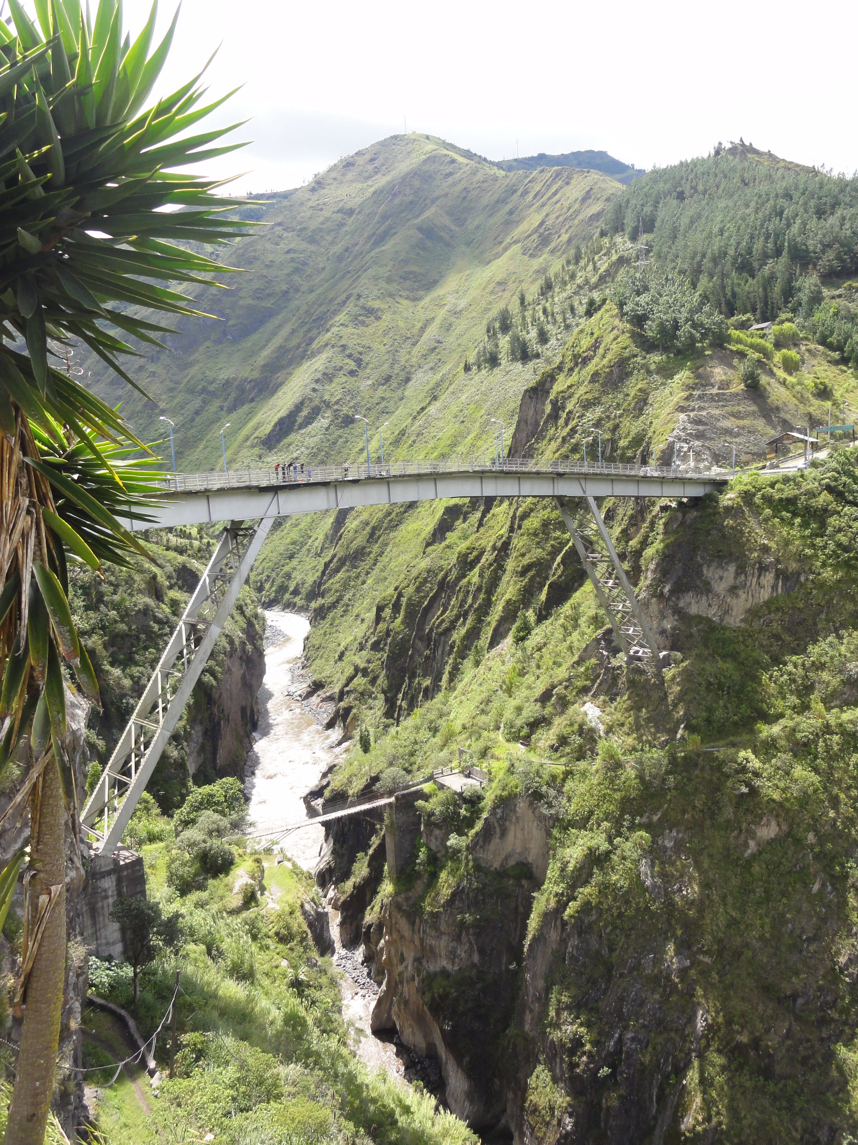 A bridge spans the canyon near Banos